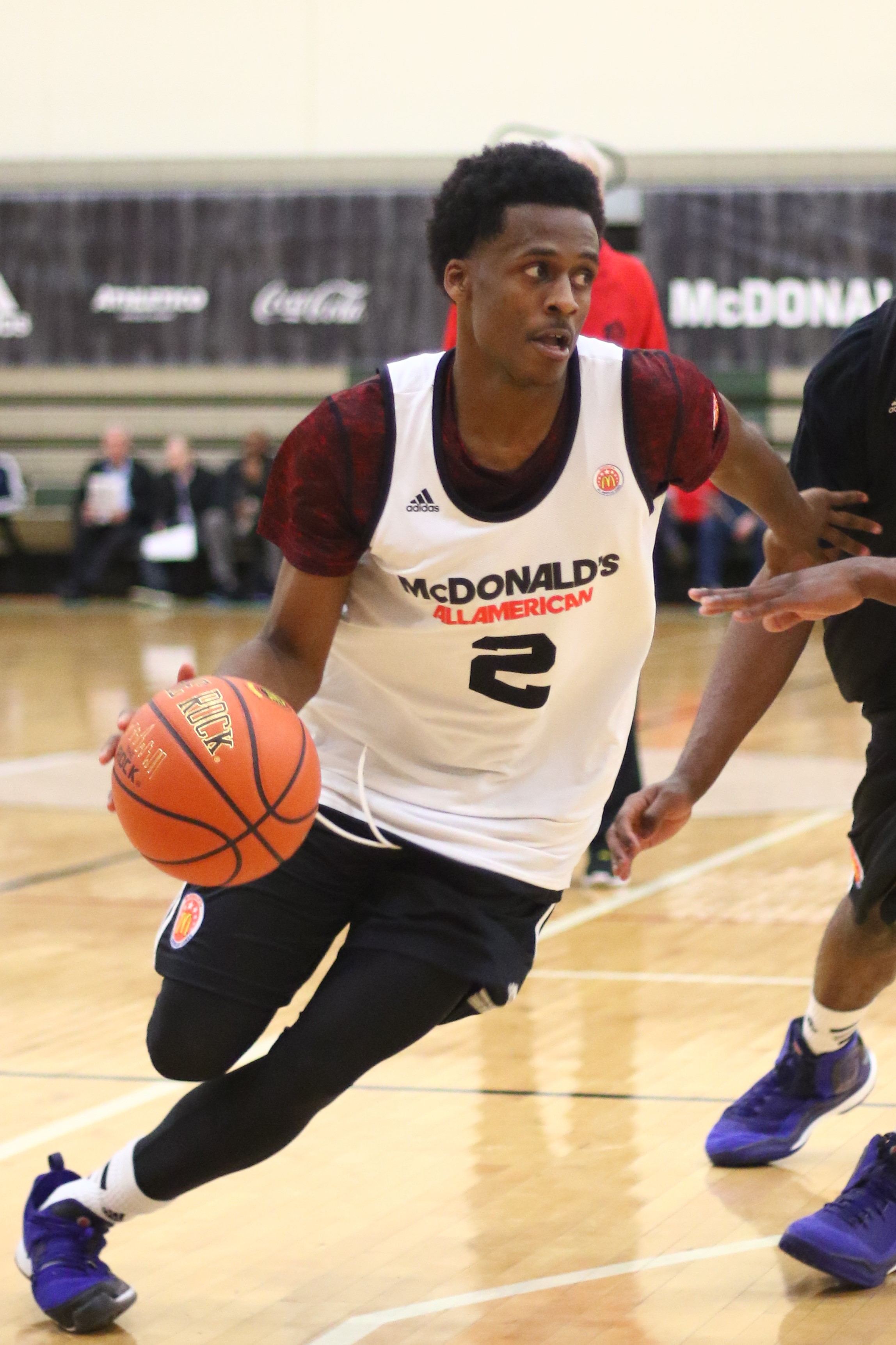 Antonio Blakeney in the w:2015 McDonald's All-American Boys Game closed practice